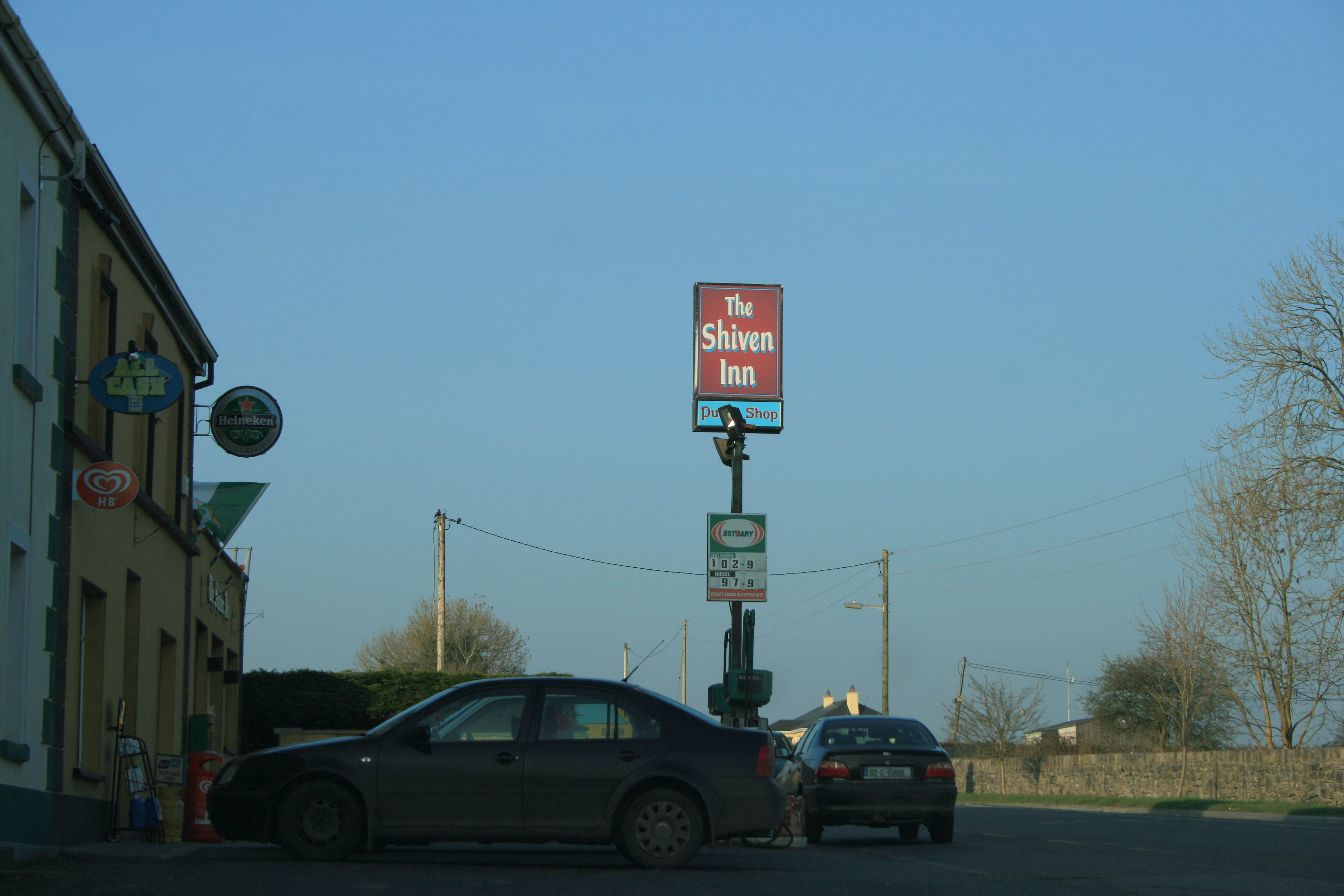 Newbridge on the N63